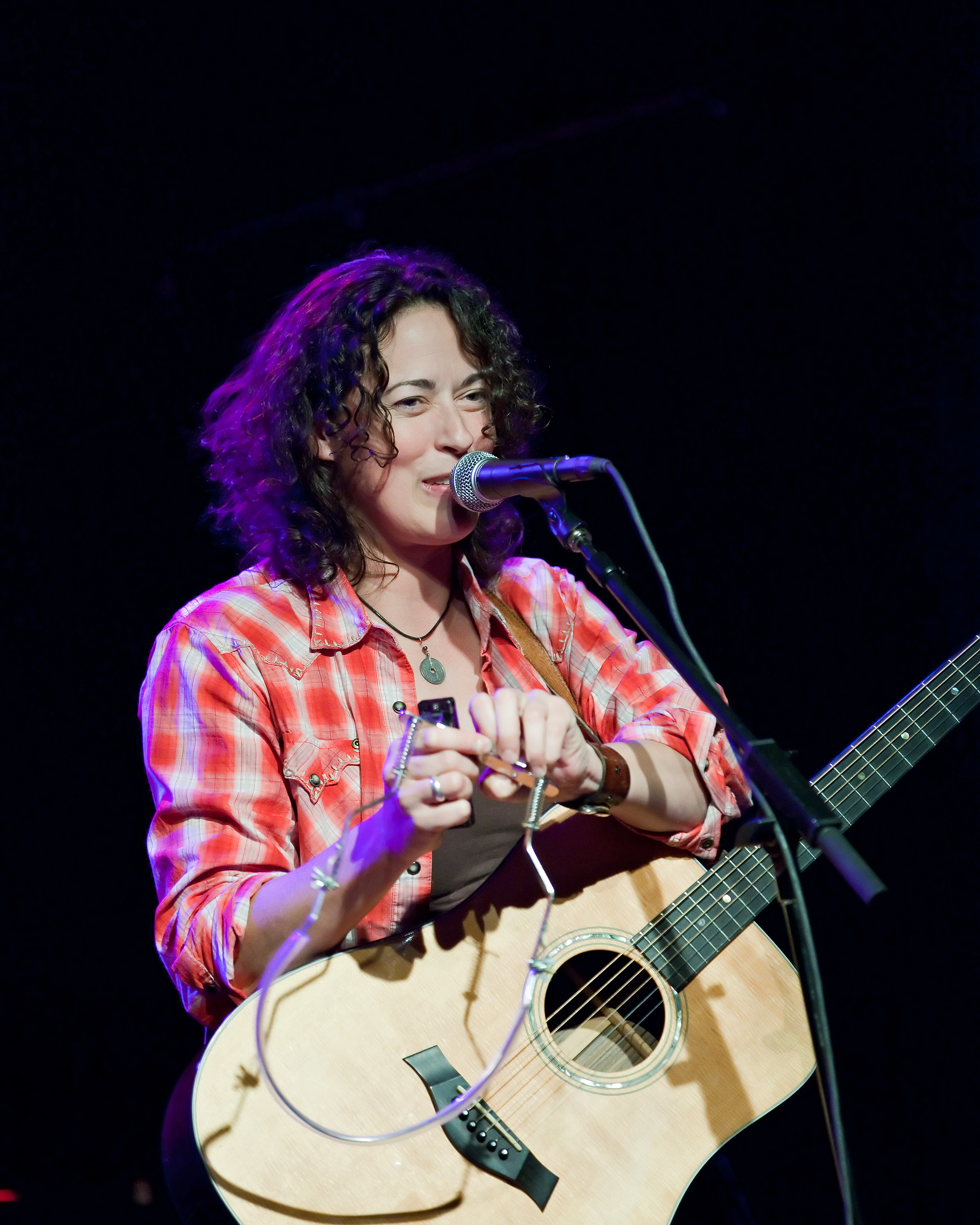 Trina Hamlin opening for Natalia Zukerman at the High Noon Saloon (Madison, Wisconsin).